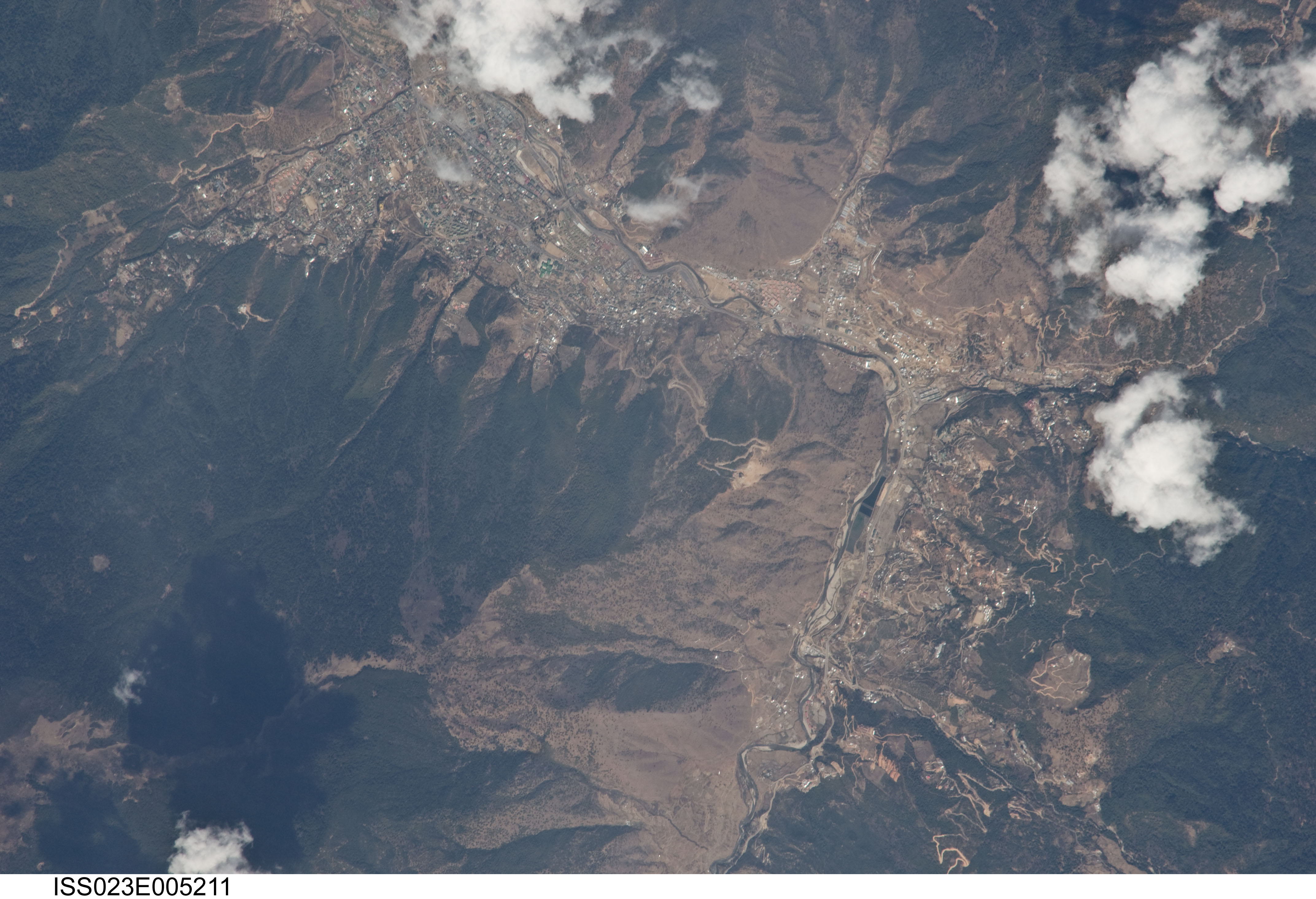 Astronaut Photo of Thimphu, Bhutan taken from the International Space Station (ISS) during Expedition 23 on March 18, 2010.